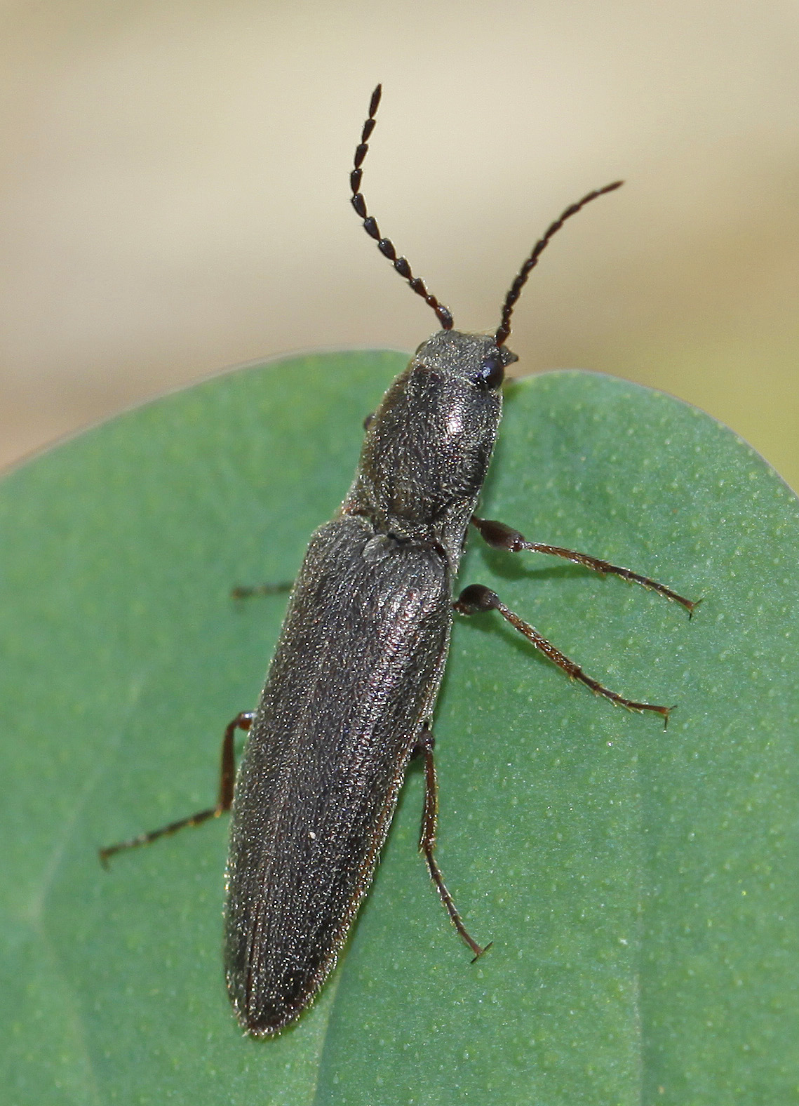 Click Beetle - Sylvanelater cylindriformis, Riverbend Park, Great Falls, Virginia.